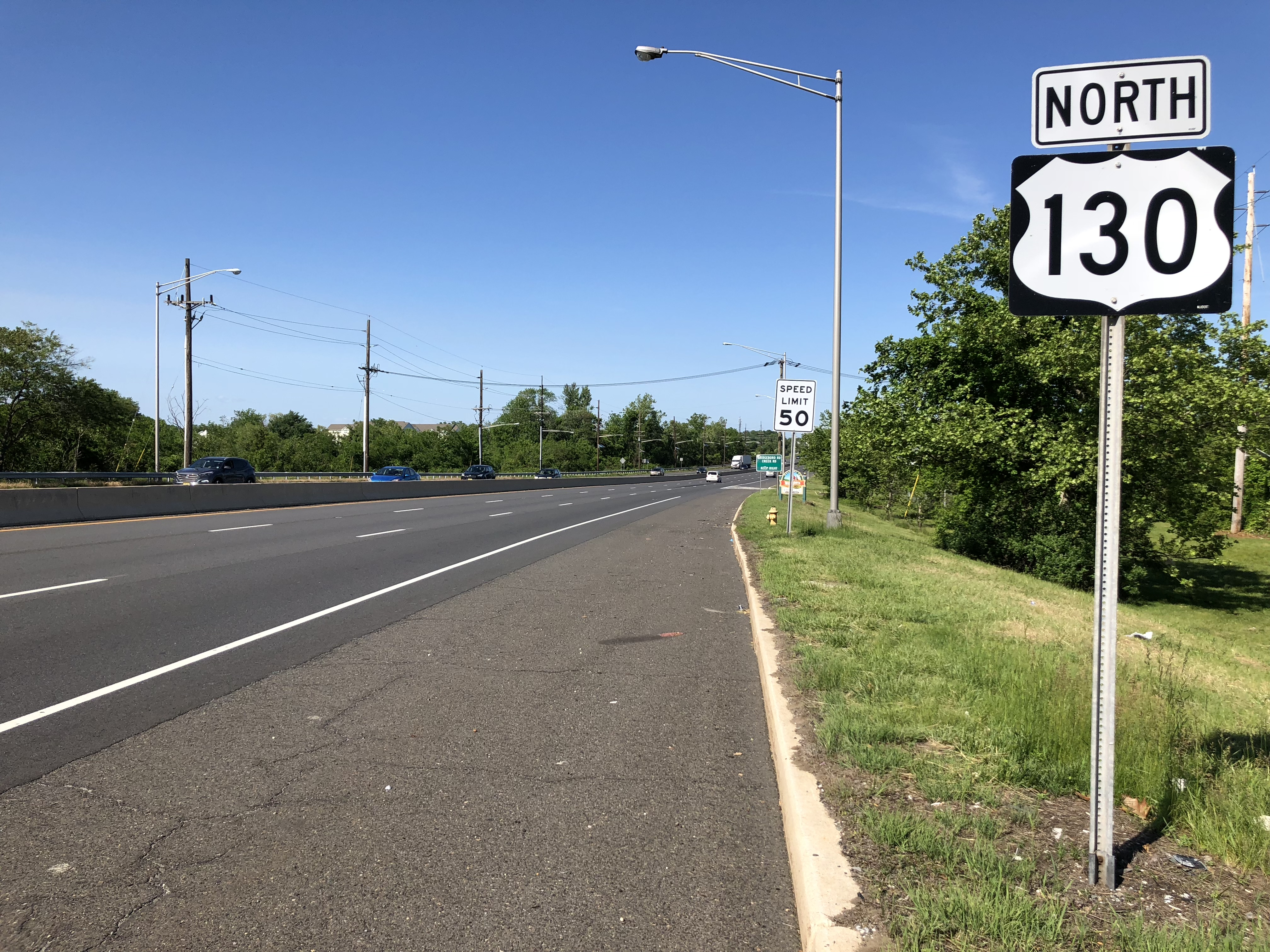 View north along U.S. Route 130 (Burlington Pike) just north of the Rancocas Creek on the border of Delanco Township and Willingboro Township in Burlington County, New Jersey